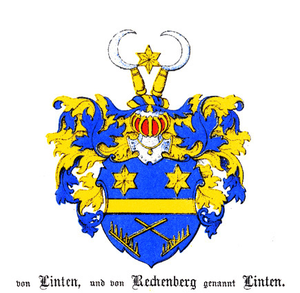 Coat of Arms of von Linten und von Rechenberg gennant Linten family